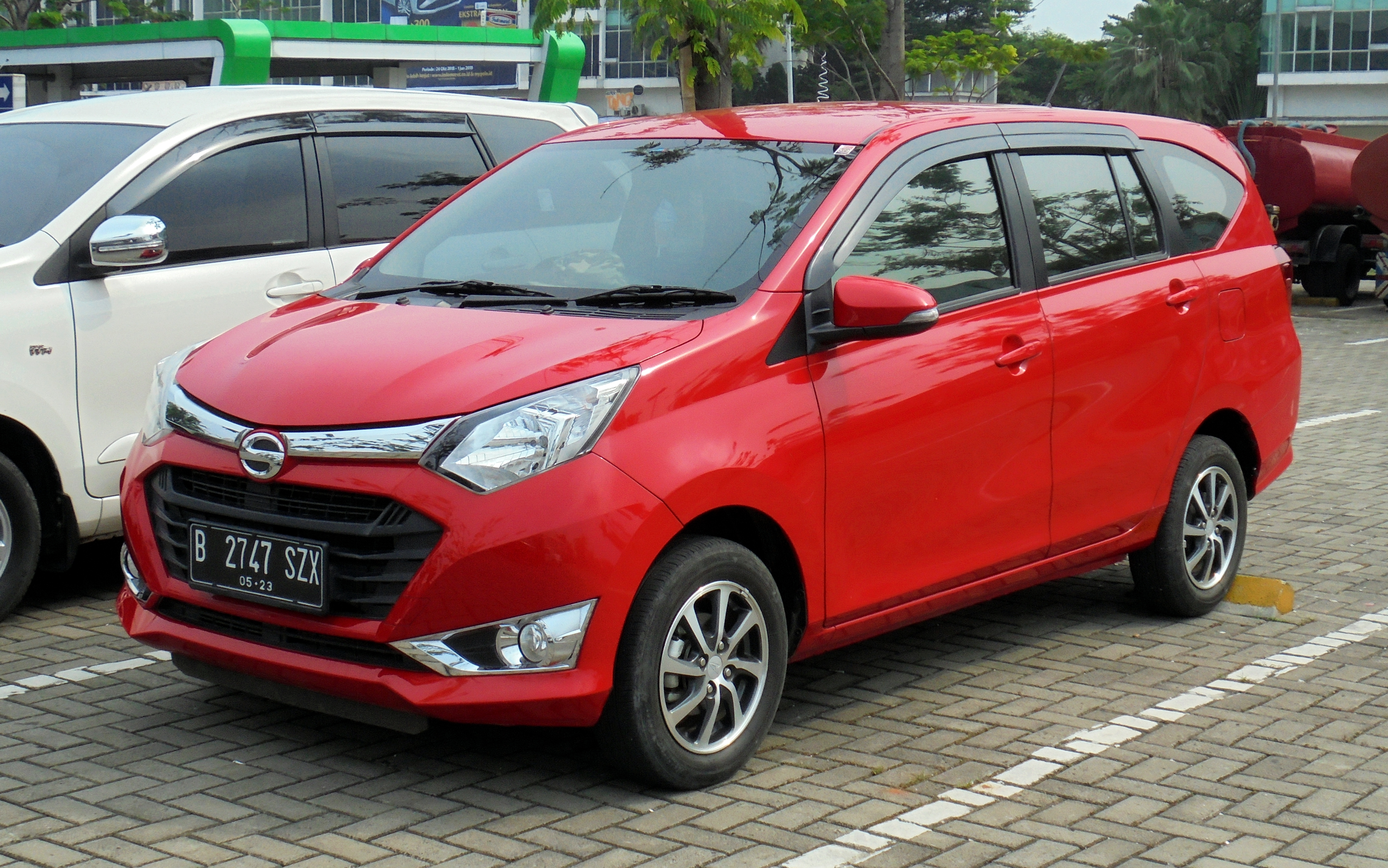 2018 Daihatsu Sigra 1.2 R wagon (B401RS) photographed in South Tangerang, Banten, Indonesia.